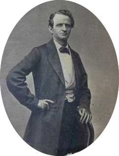 Crop of an undated photo of Herman Ehrenberg, 1816 – October 9, 1866, by an unknown photographer.